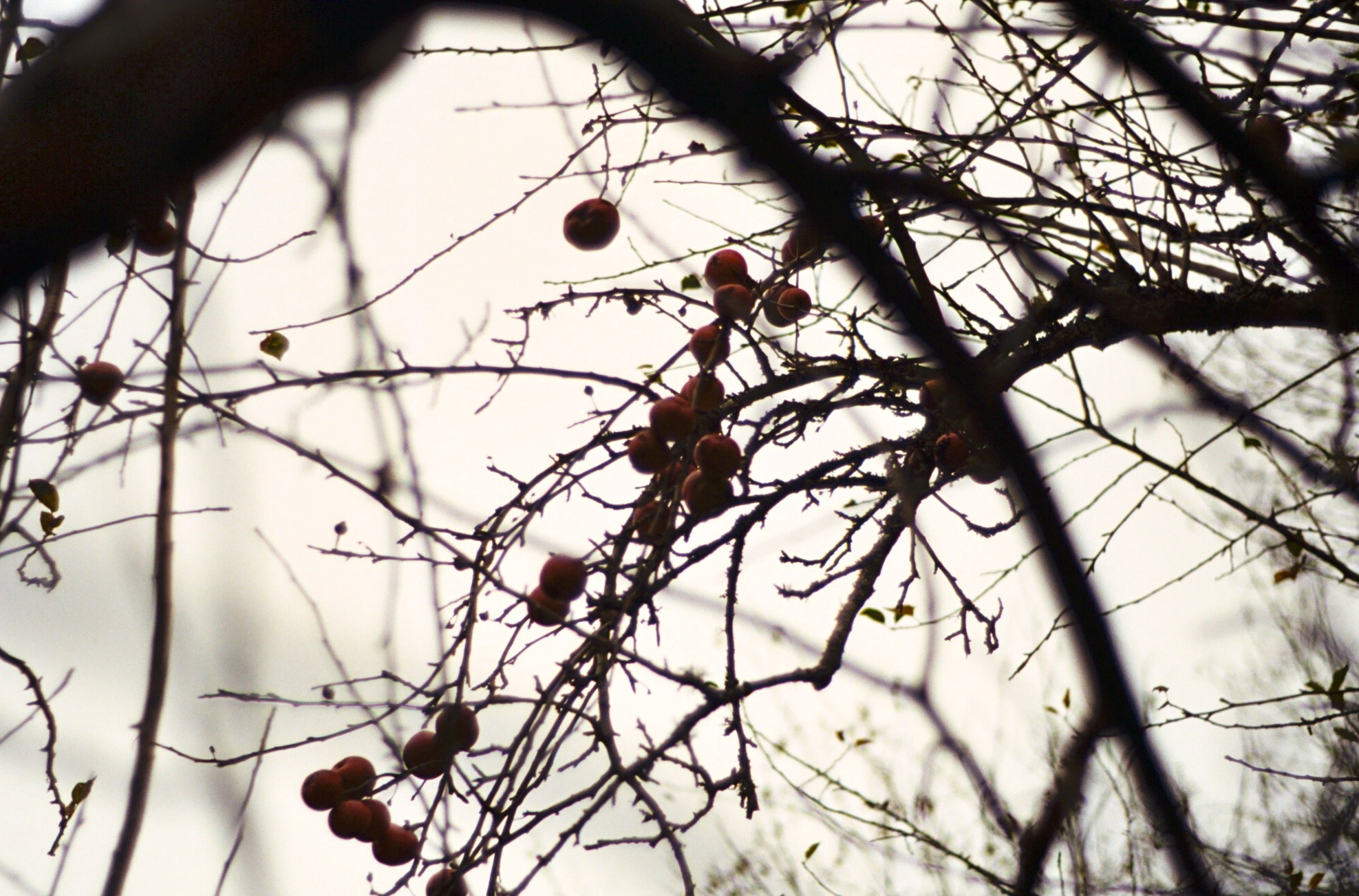 Piper Orchard, Seattle, Washington.